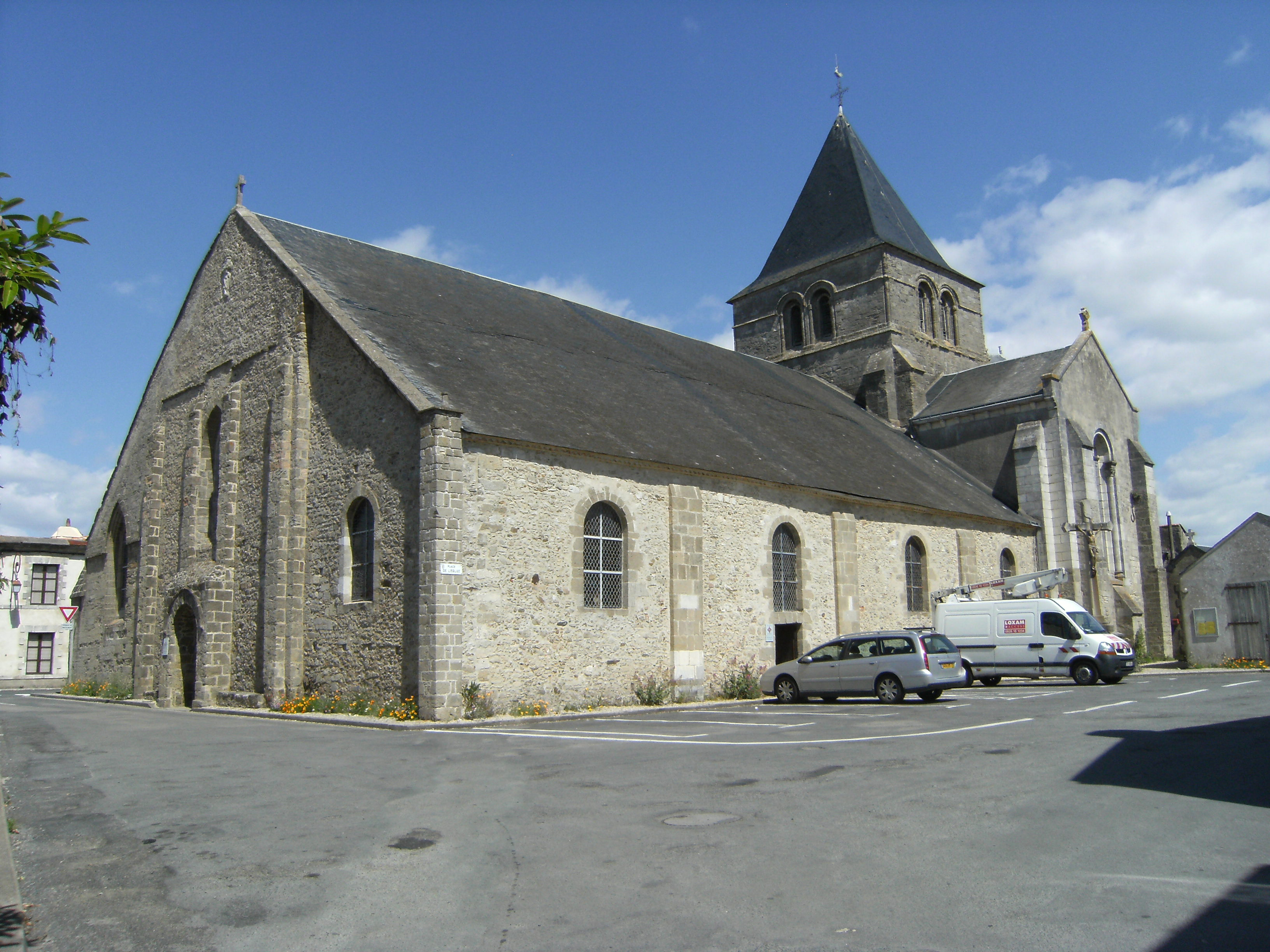 church Saint Philibert in Beauvoir sur Mer